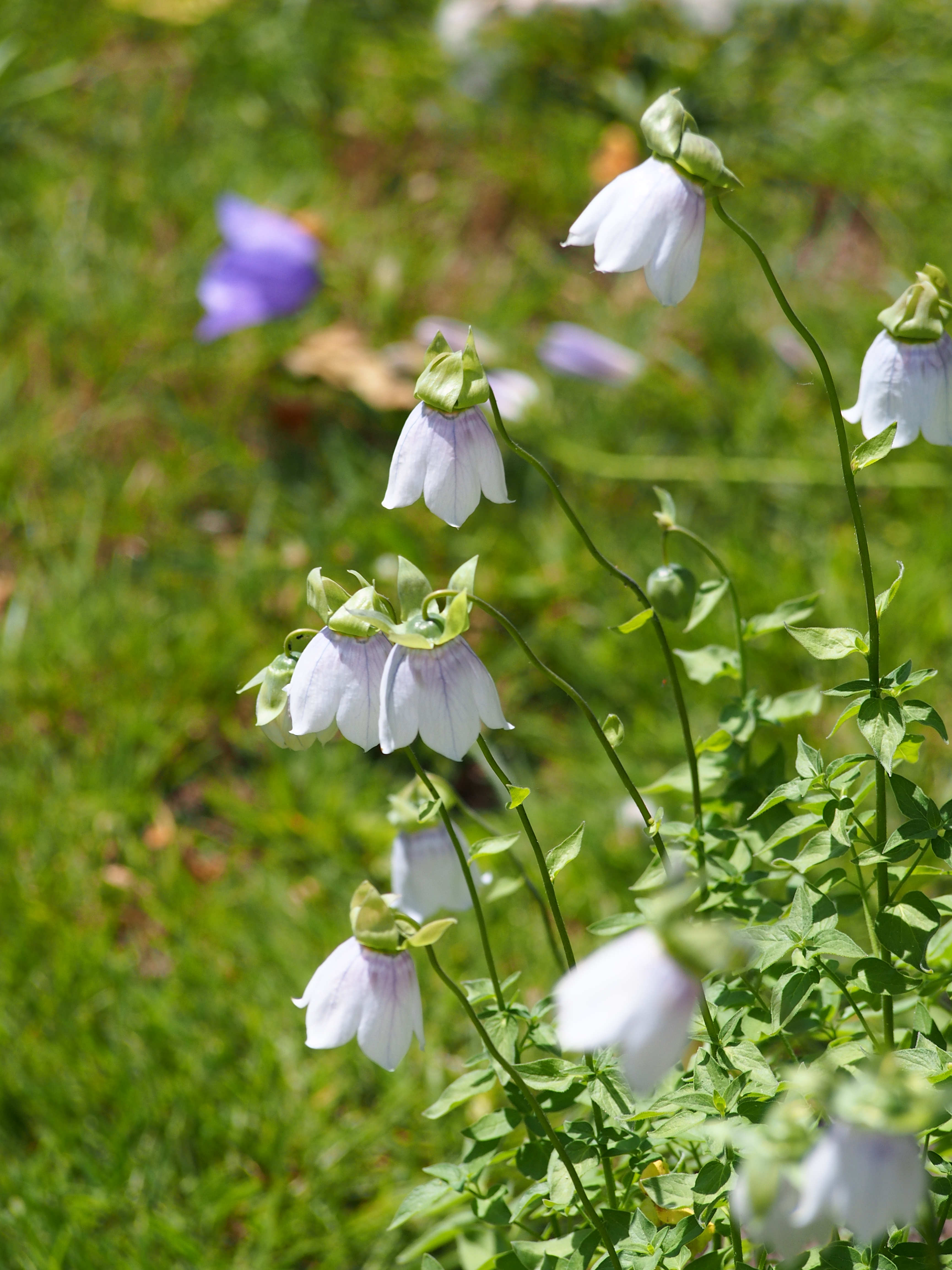 Codonopsis clematidea in Wrocław University Botanical Garden, Poland.